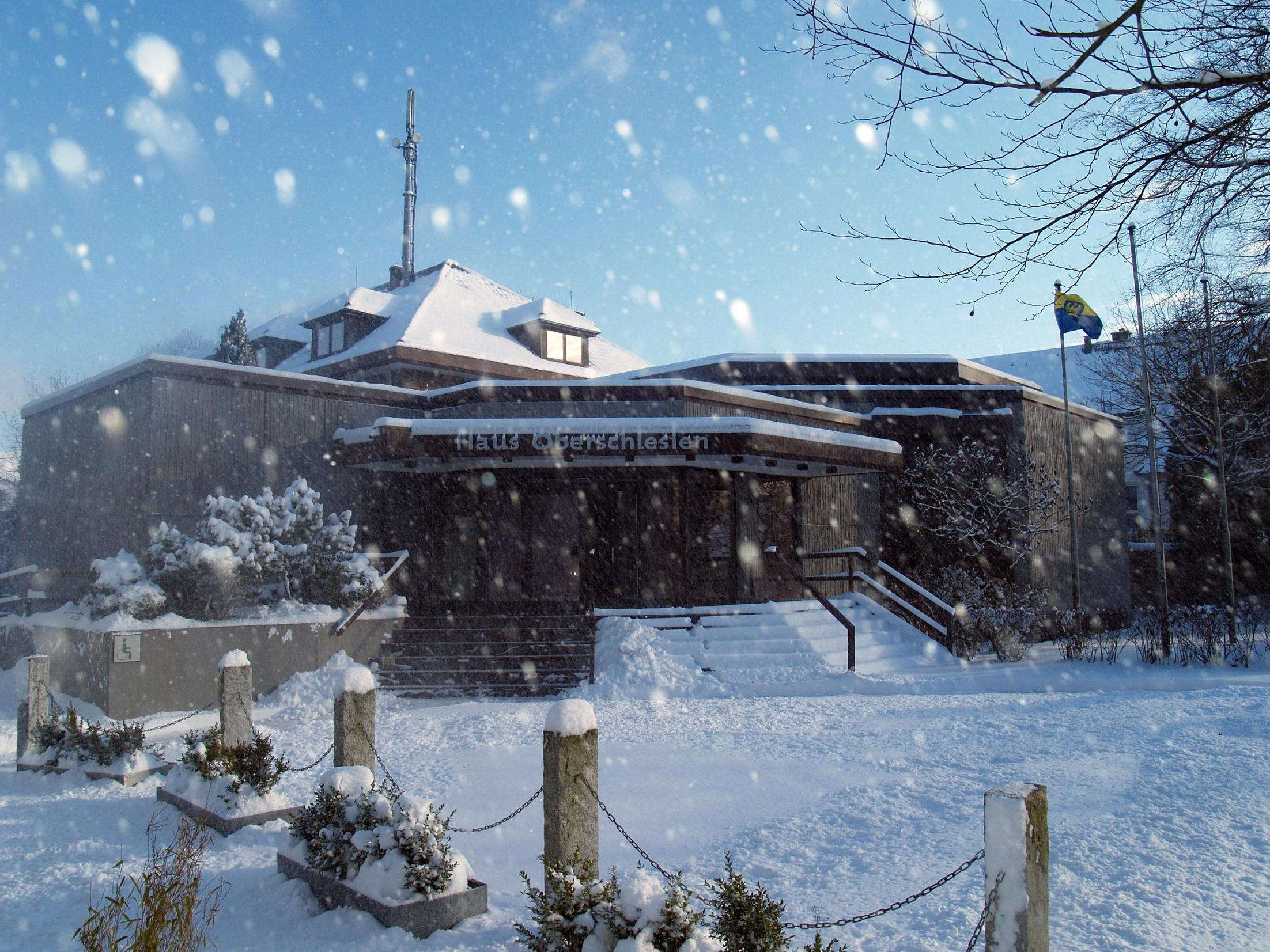 Foundation "Haus Oberschlesien", Ratingen-Hösel, 2009